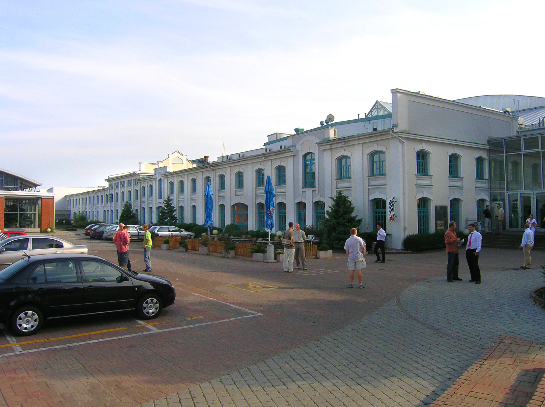 Former Laurin and Klement factory in Mladá Boleslav, Czech Republic